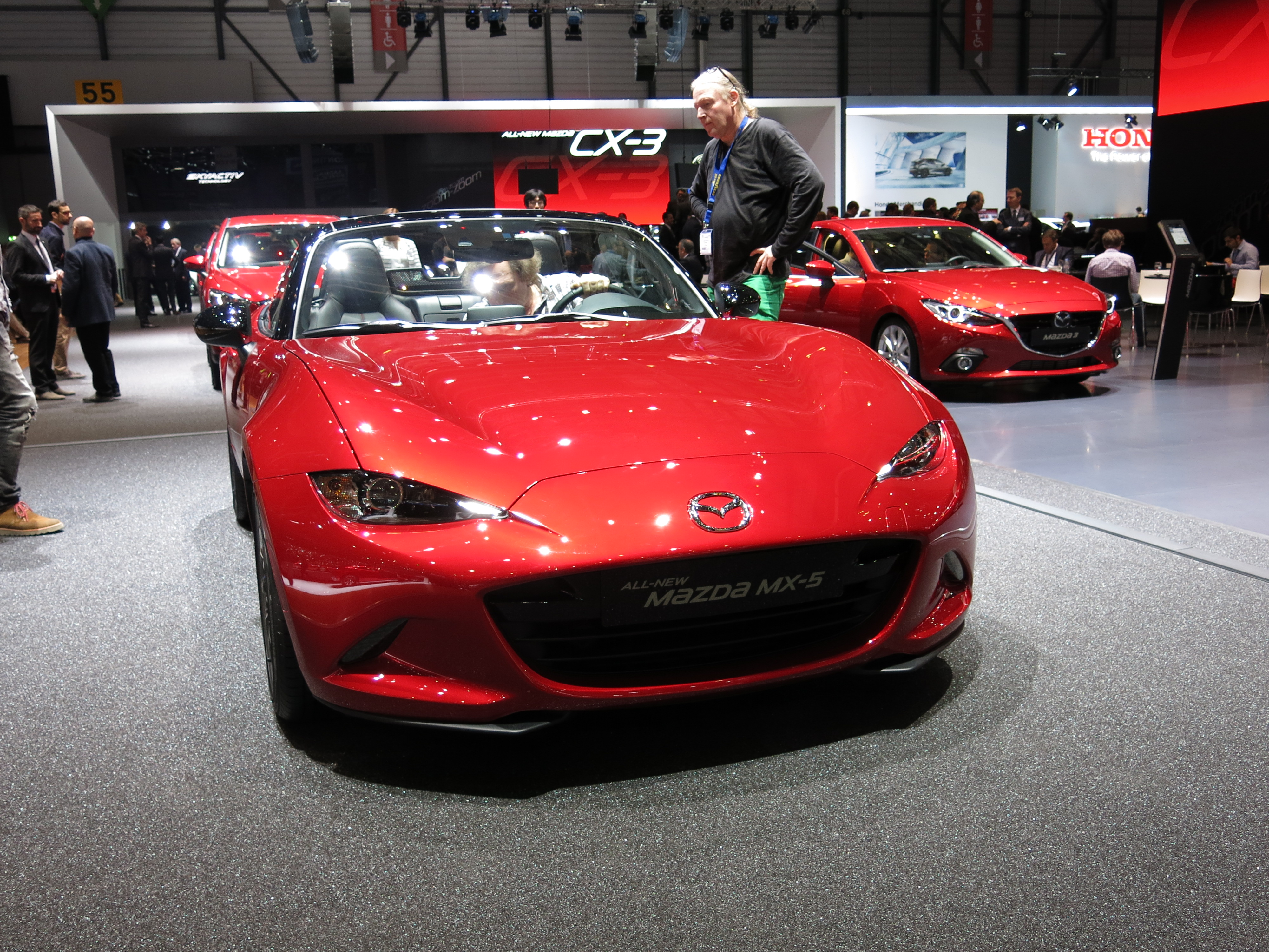 Geneva Motor Show 2015 (photo taken on the first press day)